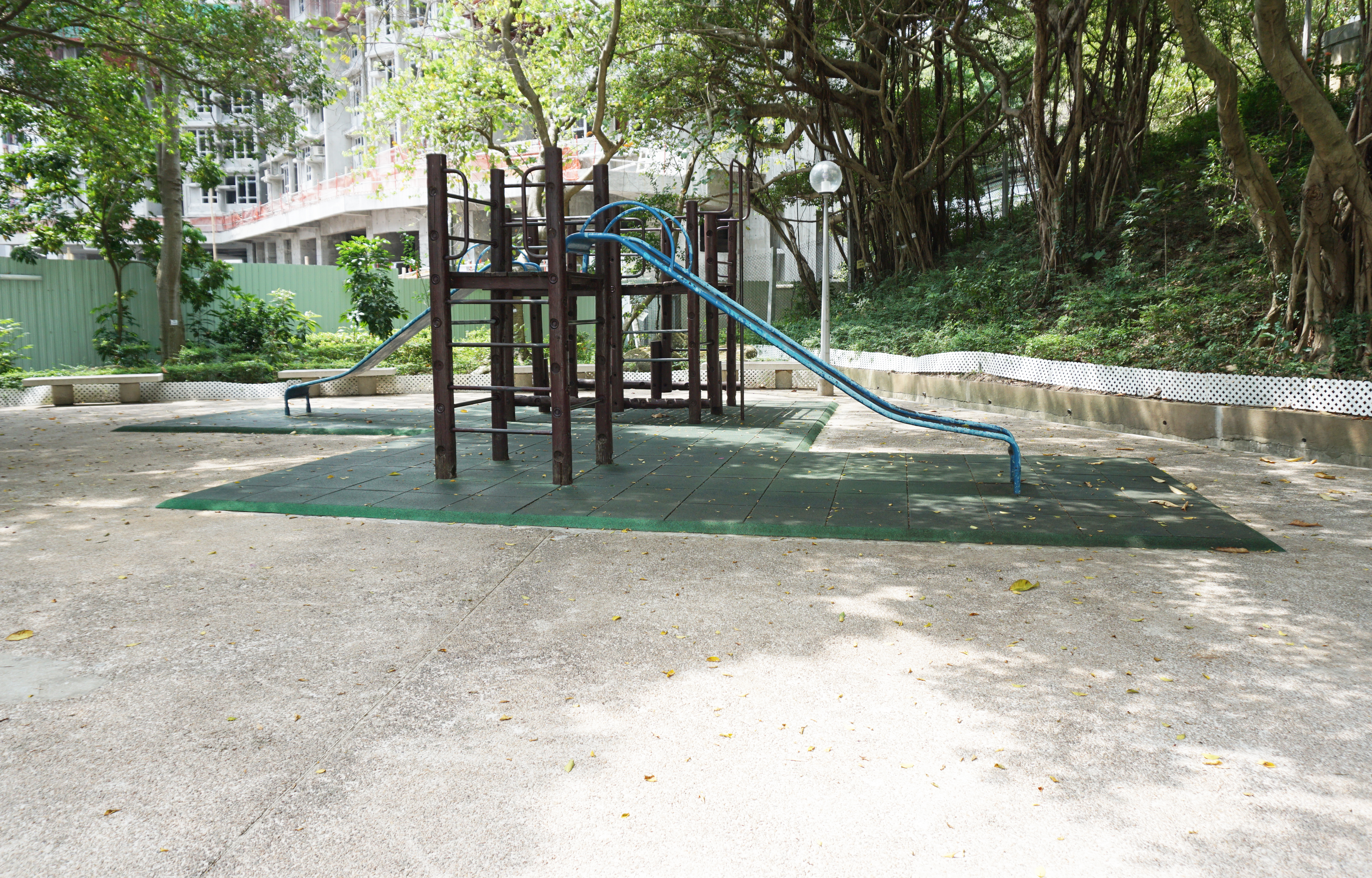 King Shan Court in Hammer Hill, Hong Kong.